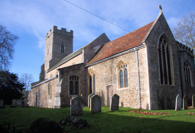 St Peter's Church, Little Thurlow An attractive church in an attractive village, north of Haverhill. for further details.